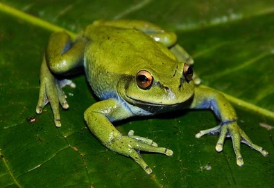 Dendropsophus labialis